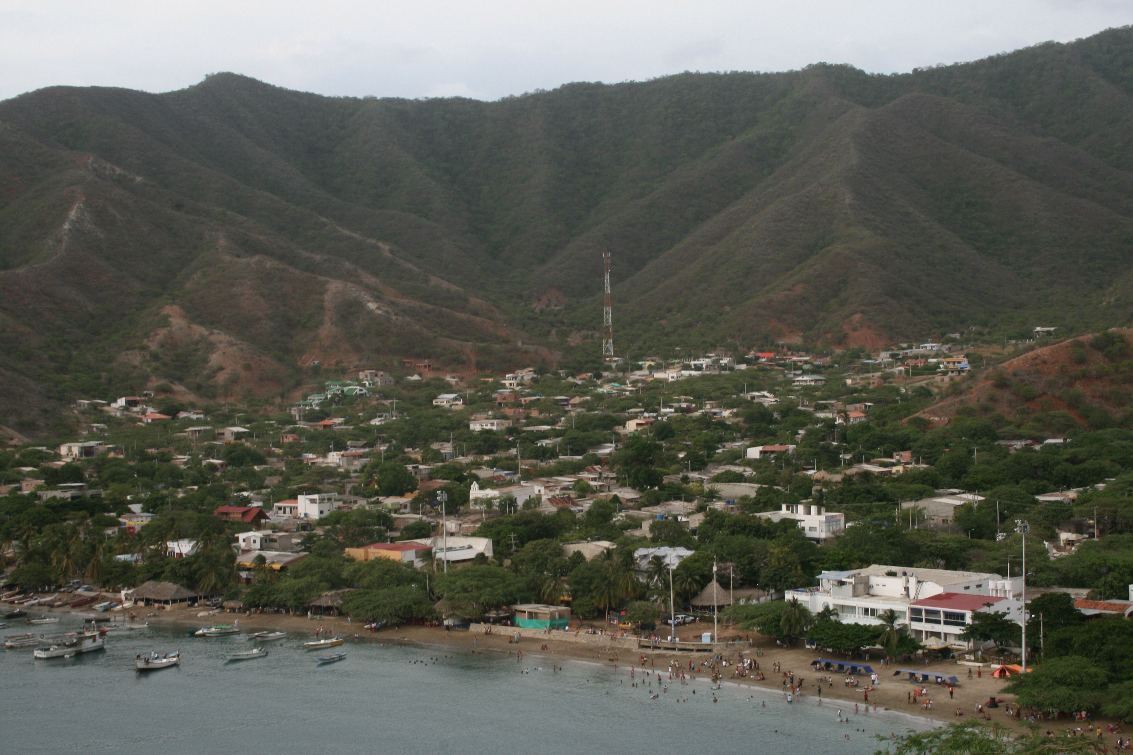 Taganga, Colombia, Aug. 23, 2009.